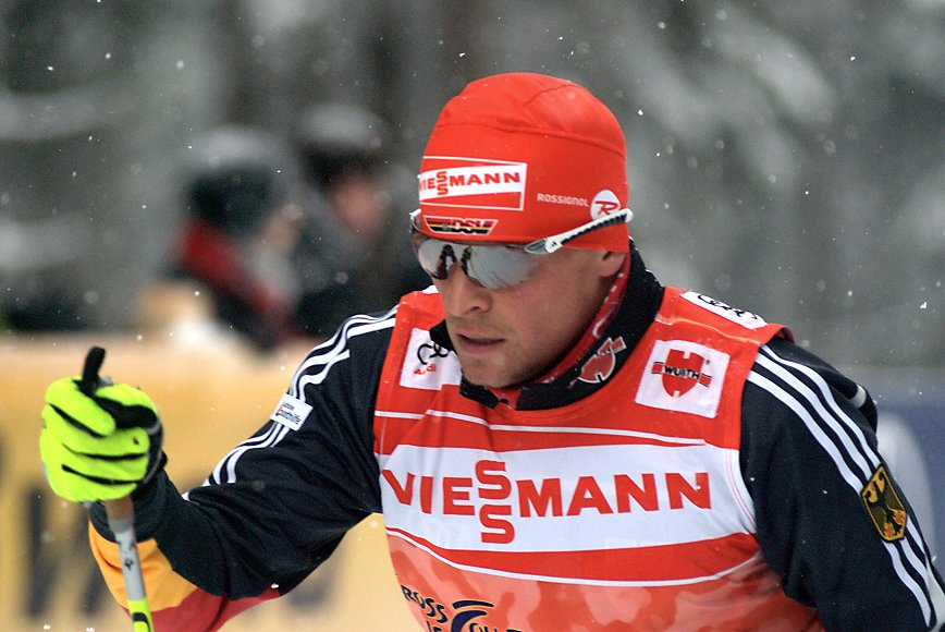 Tobias Angerer at the Tour de Ski 2010 in Oberhof